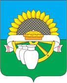 Coat of arms of Belaya Glina